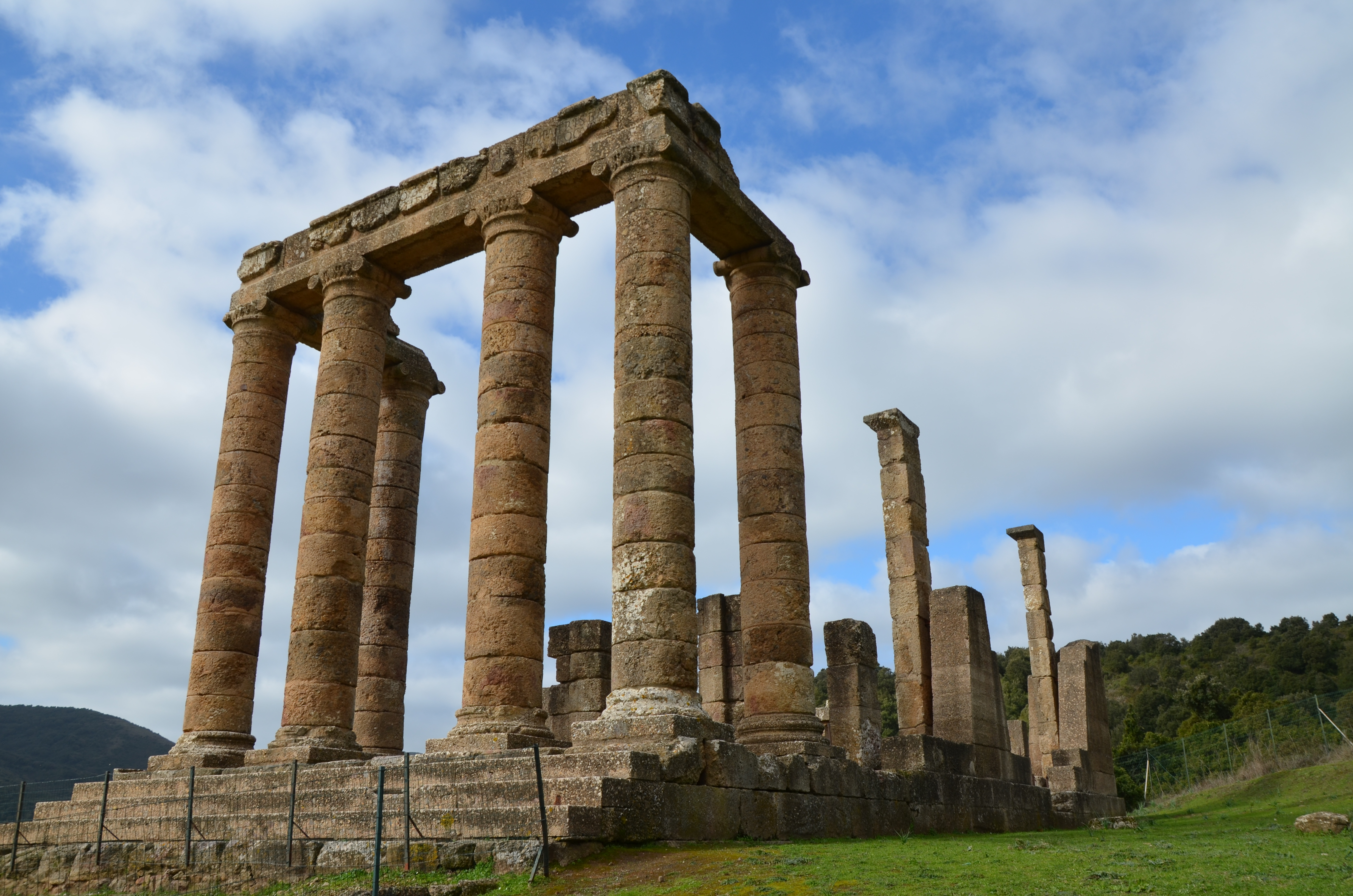 Temple of Antas, a Punic-Roman temple, first built around 500 BC, and restored around 300 BC, the Roman temple was built under Augustus and restored under Caracalla, Sardinia